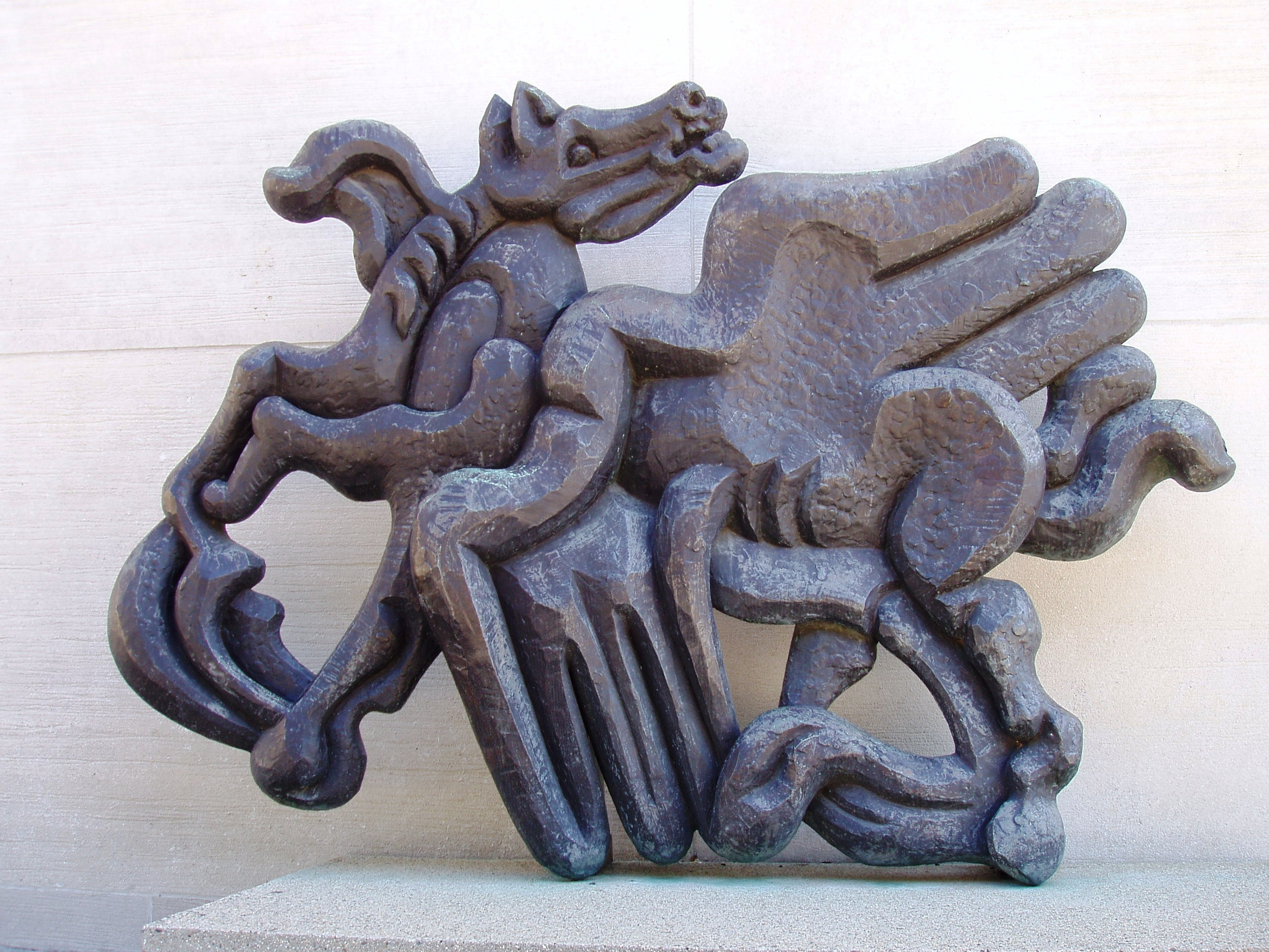 Jacques Lipchitz, Birth of the Muses (1944-1950), Massachusetts Institute of Technology Campus, Cambridge, Massachusetts. The accompanying plaque states that this bronze statue was given by Yulla Lipchitz in memory of Jerome B. Weisner. It is part of MIT's permanent collection. Photograph taken by me, September 2005.